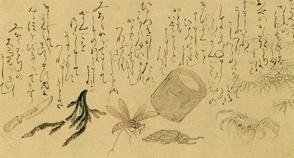 Sarukanigassen (The Crab and the Monkey) Emaki